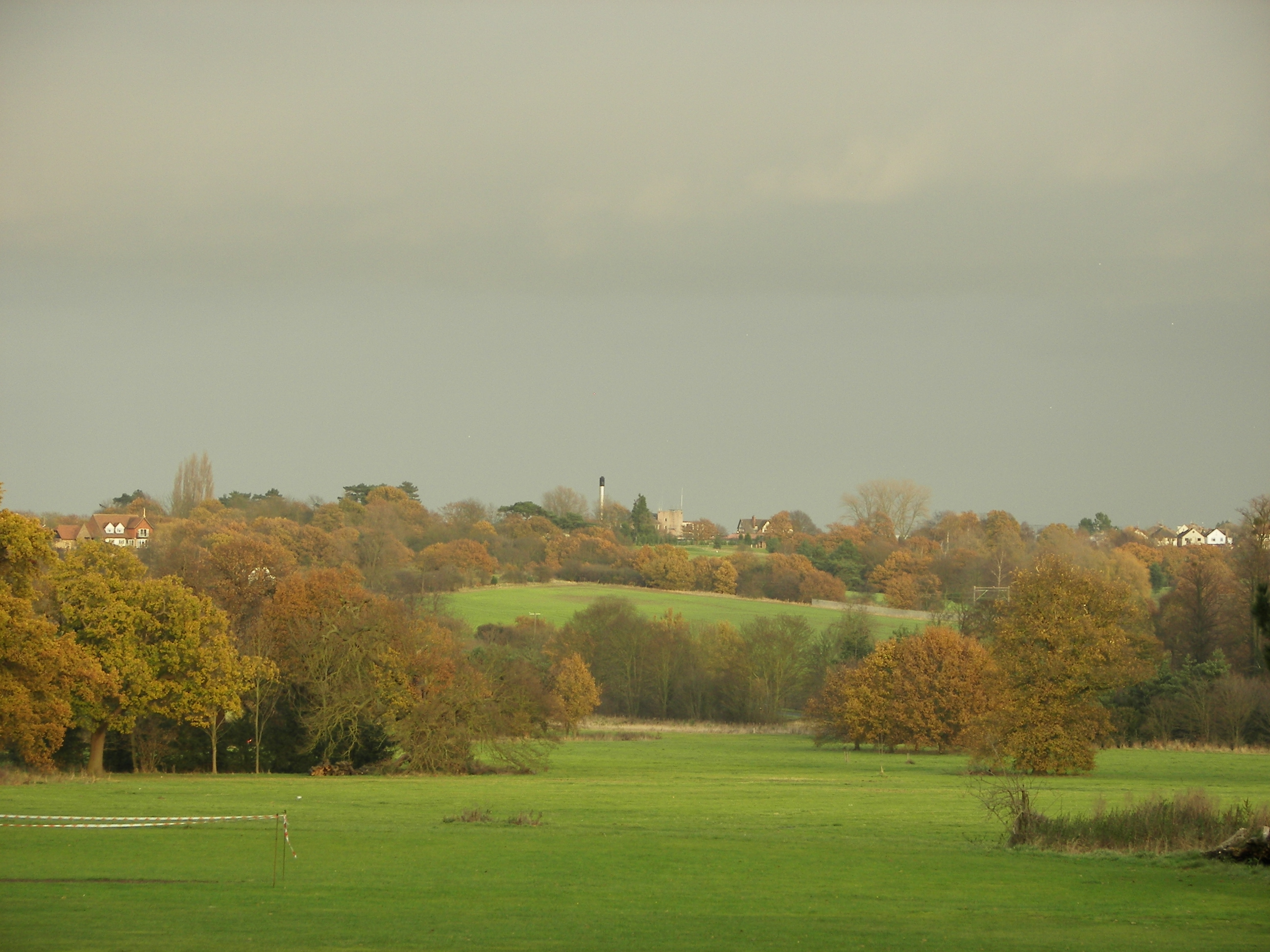 View southeast from the terrace towards Chelmsford and St John's Hospital. The park (574 acres) hosted the World Scout Jamboree in 2007 as well as the annual V Festival.